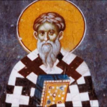 Paul I or Paulus I or Saint Paul the Confessor (died c. 350)